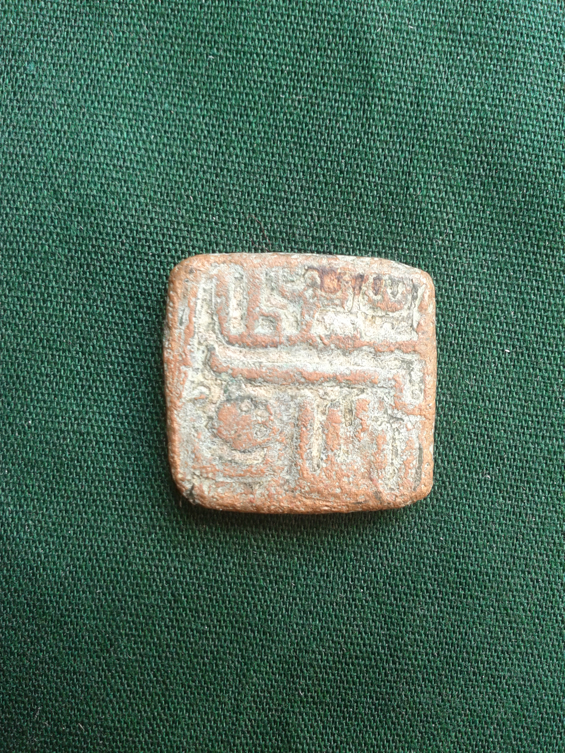 delhi sulthan period coin (Malva)